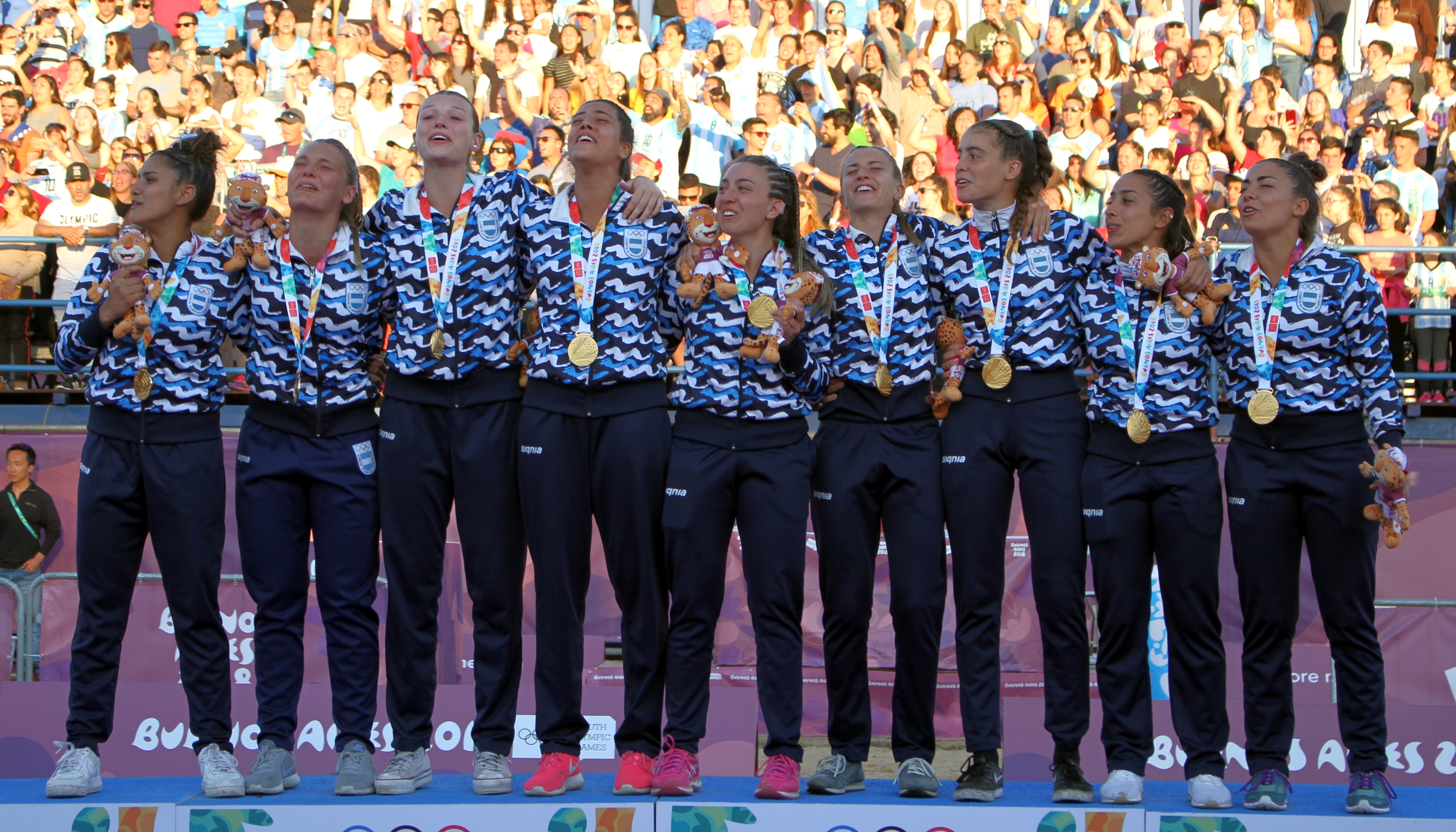 Beach handball at the 2018 Summer Youth Olympics in Buenos Aires at 13 October 2018 – Medal Ceremony Girls - Gold: Argentina, Silver: Croatia, Bronze: Hungary